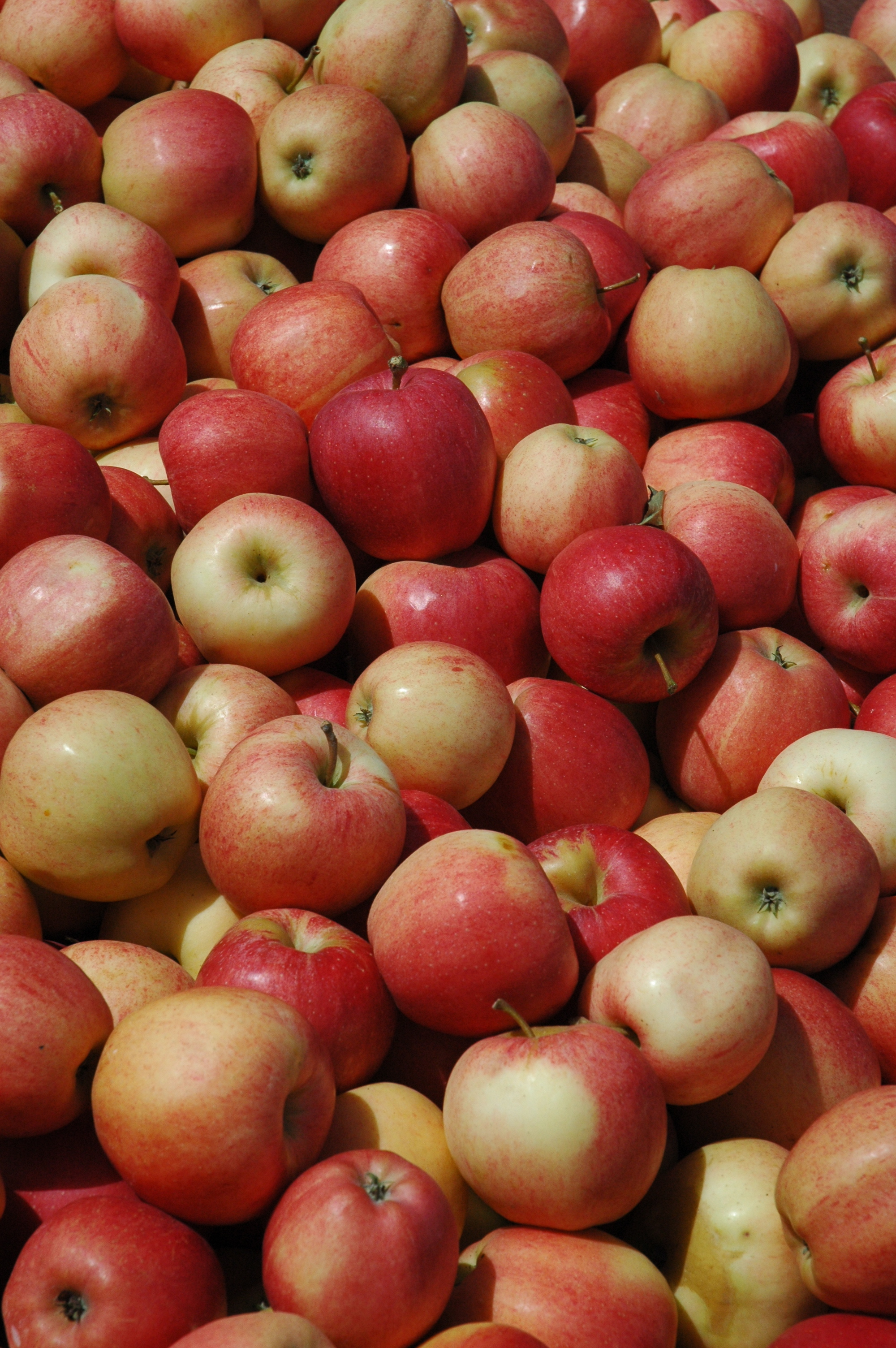 Many Cox's Orange pippin apples